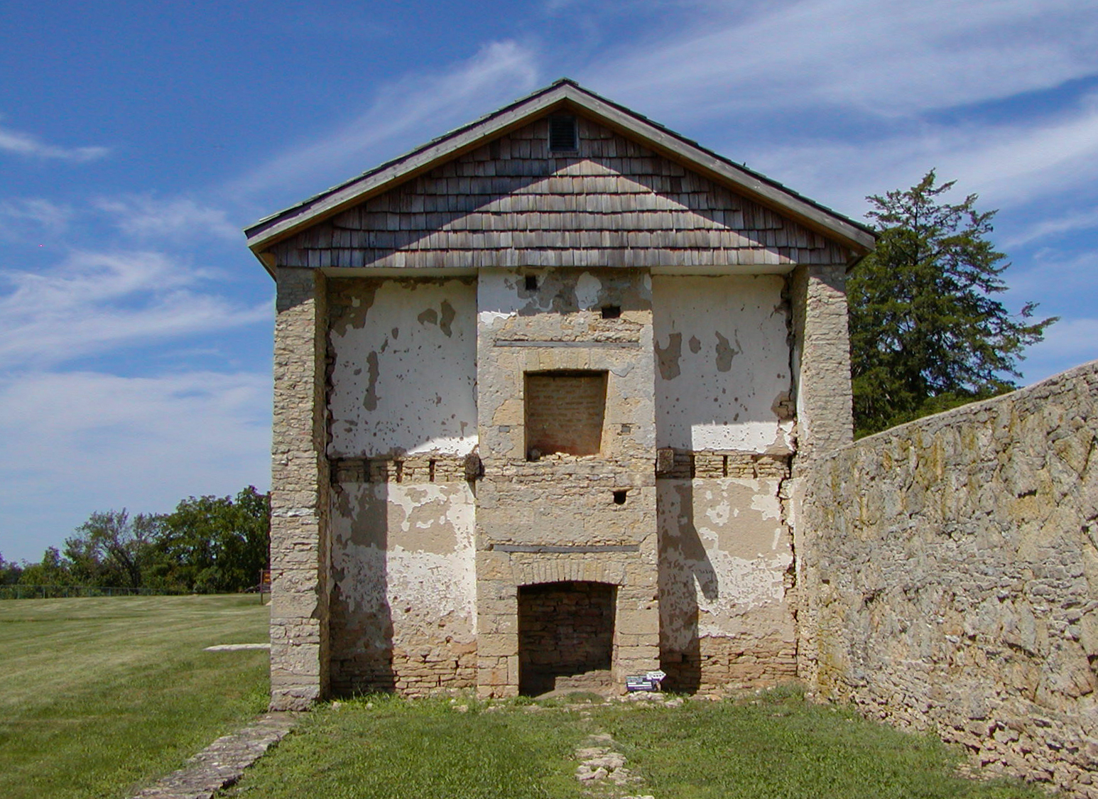 Historic Fort Atkinson, built 1840.